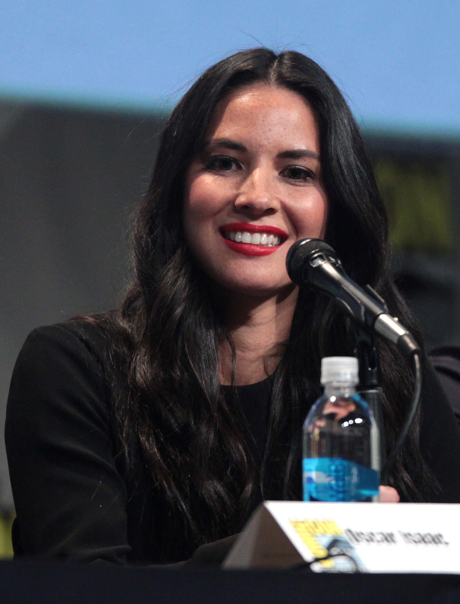 Olivia Munn speaking at the 2015 San Diego Comic Con International, for "X-Men: Apocalypse", at the San Diego Convention Center in San Diego, California.